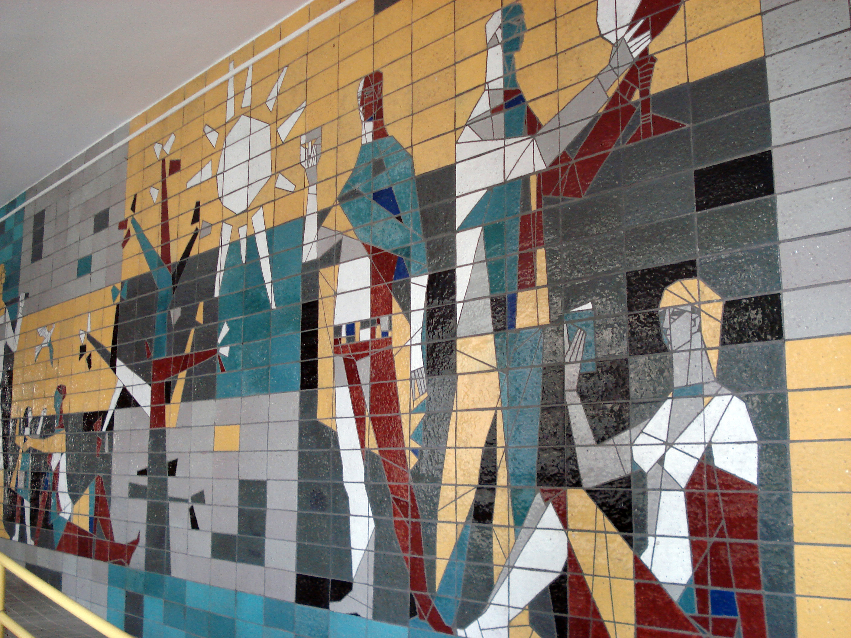 Mária Túry: Ceramic wall picture. Mosaic. Hall of Job Centre, Miskolc, Hungary